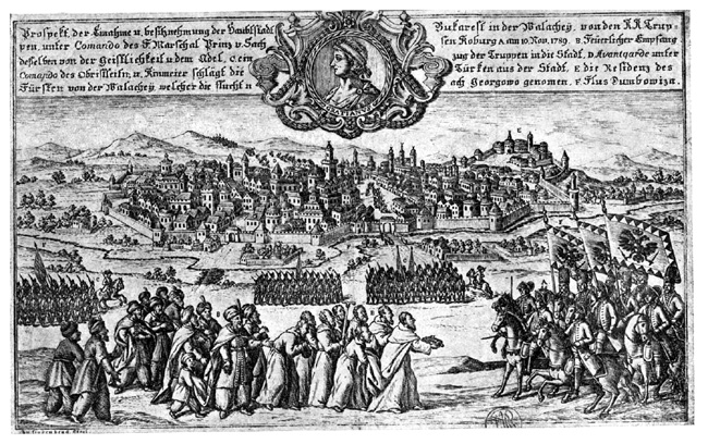 Welcoming Prince Josias of Saxe-Coburg-Saalfeld into Bucharest, 1789